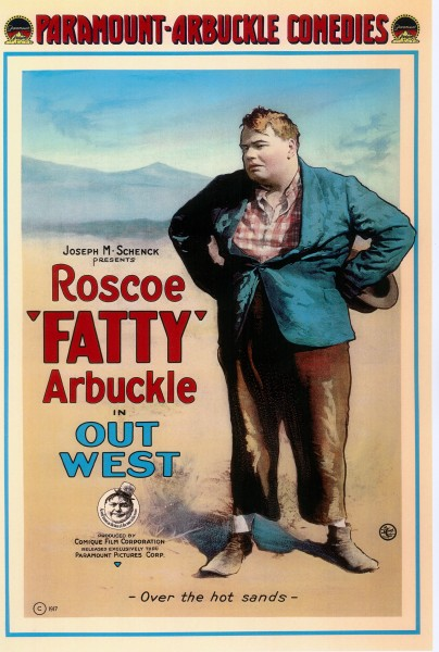 Poster for the comedy Roscoe Arbuckle "Out West" (1918).